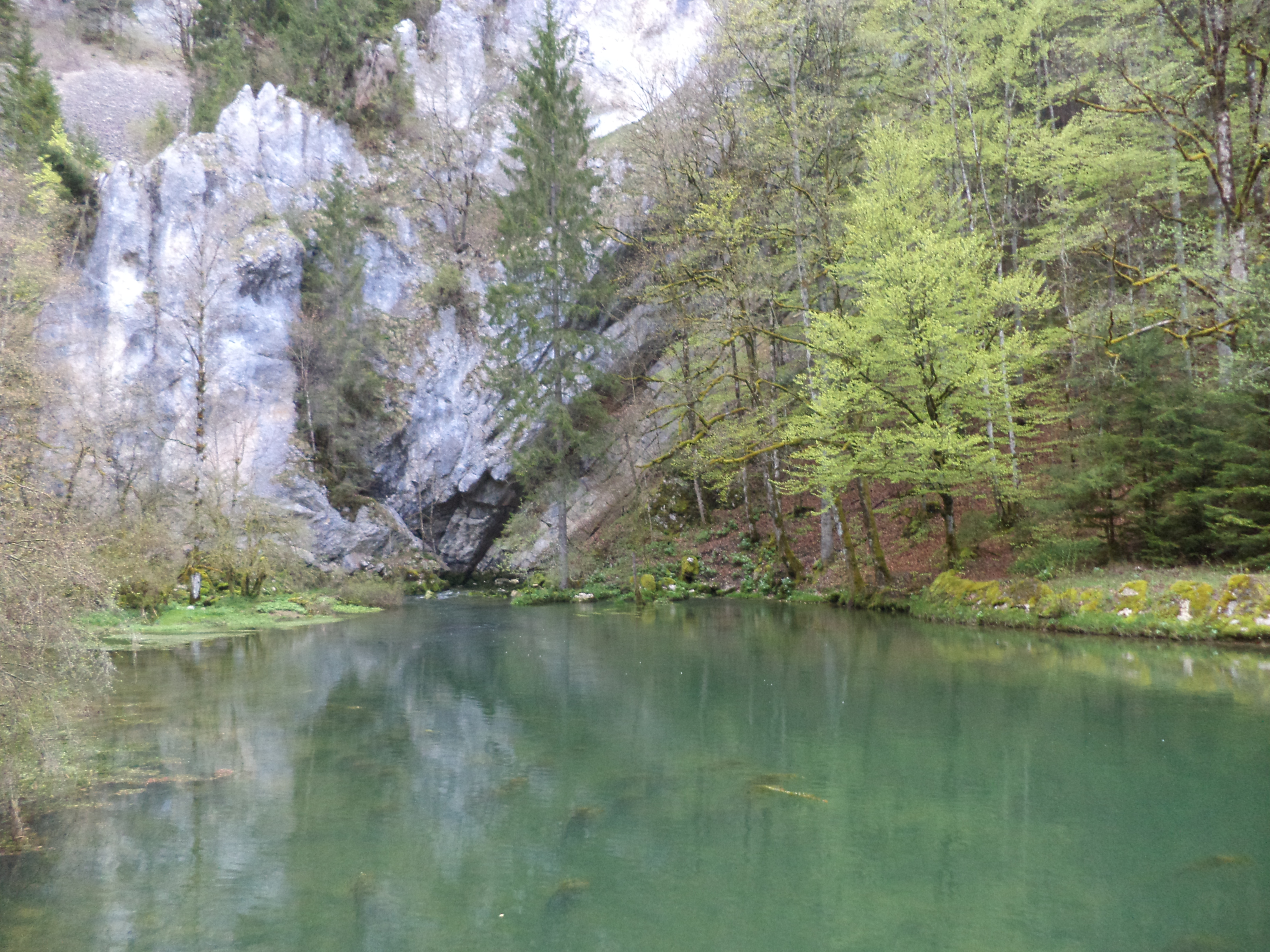 The source of the areuse River at Saint-Sulpice in the canton of Neuchâtel, Switzerland